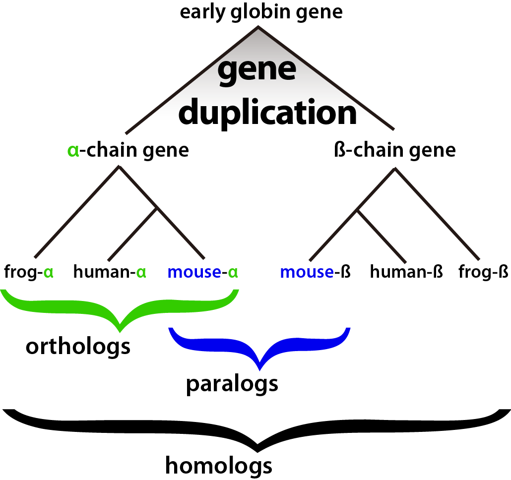 The difference among paralogs, orthologs and homologs.